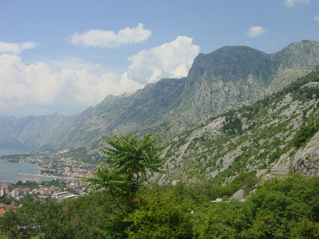 A view of cliffs at Kotor bay in Montenegro, from above Kotor.